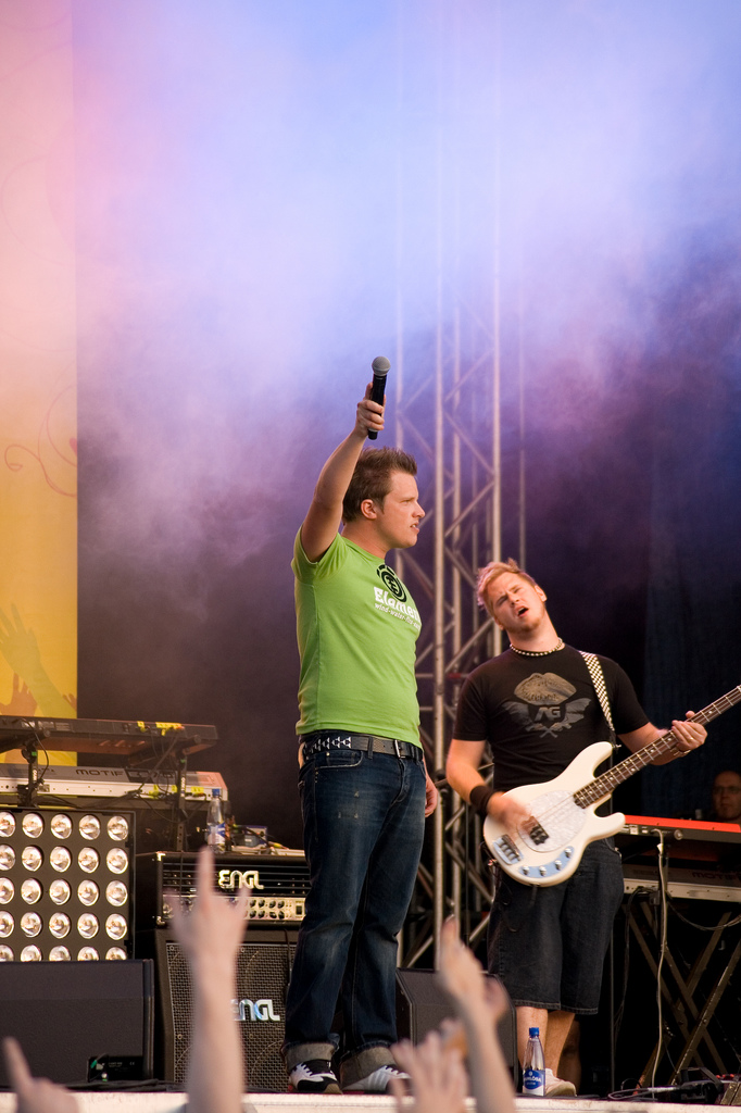 The Swedish group Takida.